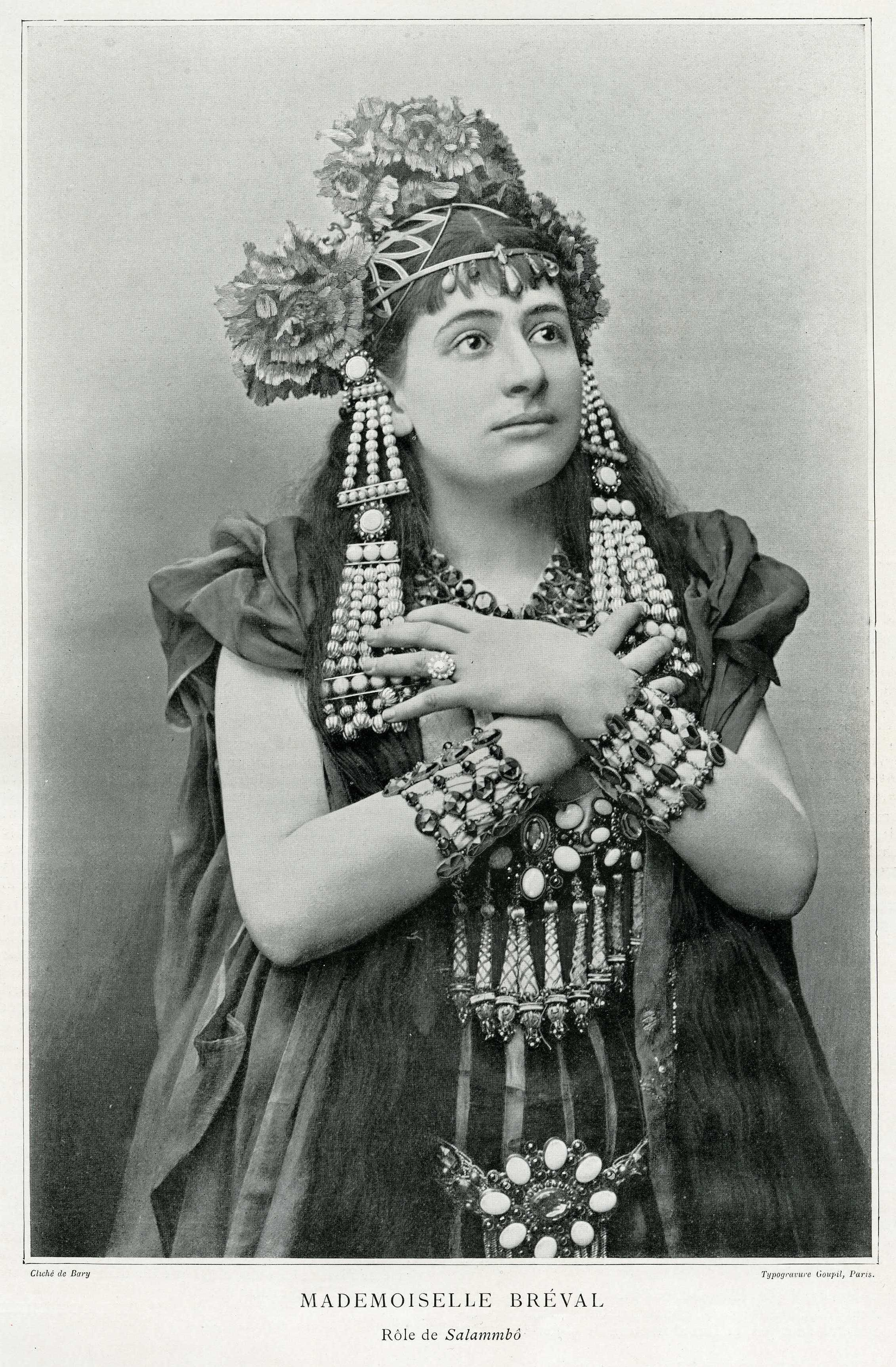 Photo of Lucienne Bréval in the role of Salammbô by Ernest Rayer.